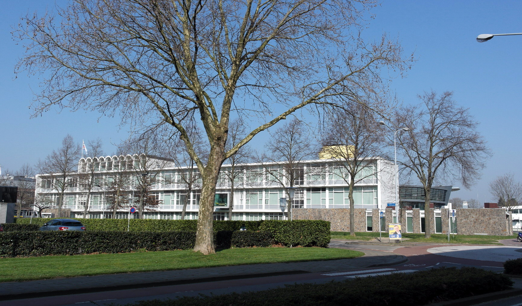 Maastricht, the Netherlands. View of Leeuwenborgh Opleidingen, a vocational training school in Scharn-Maastricht.